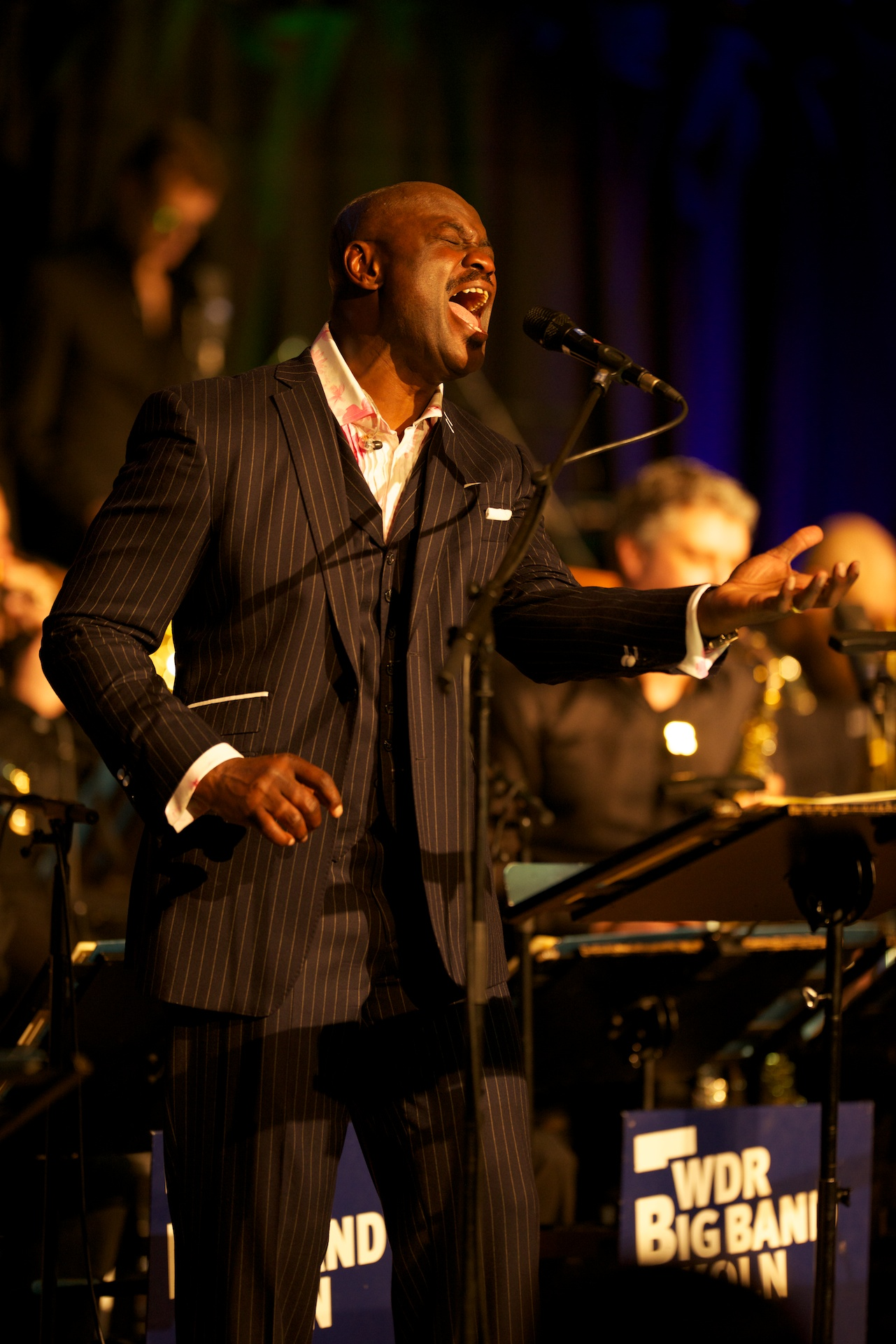 Ola Onabule performing live with WDR Bigband at Café Ada, Wuppertal, Germany, December 14th 2013